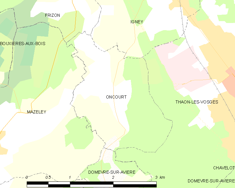 Map of French municipality Oncourt